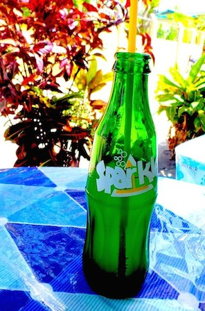 Picture of bottle of sparkle containing the drink